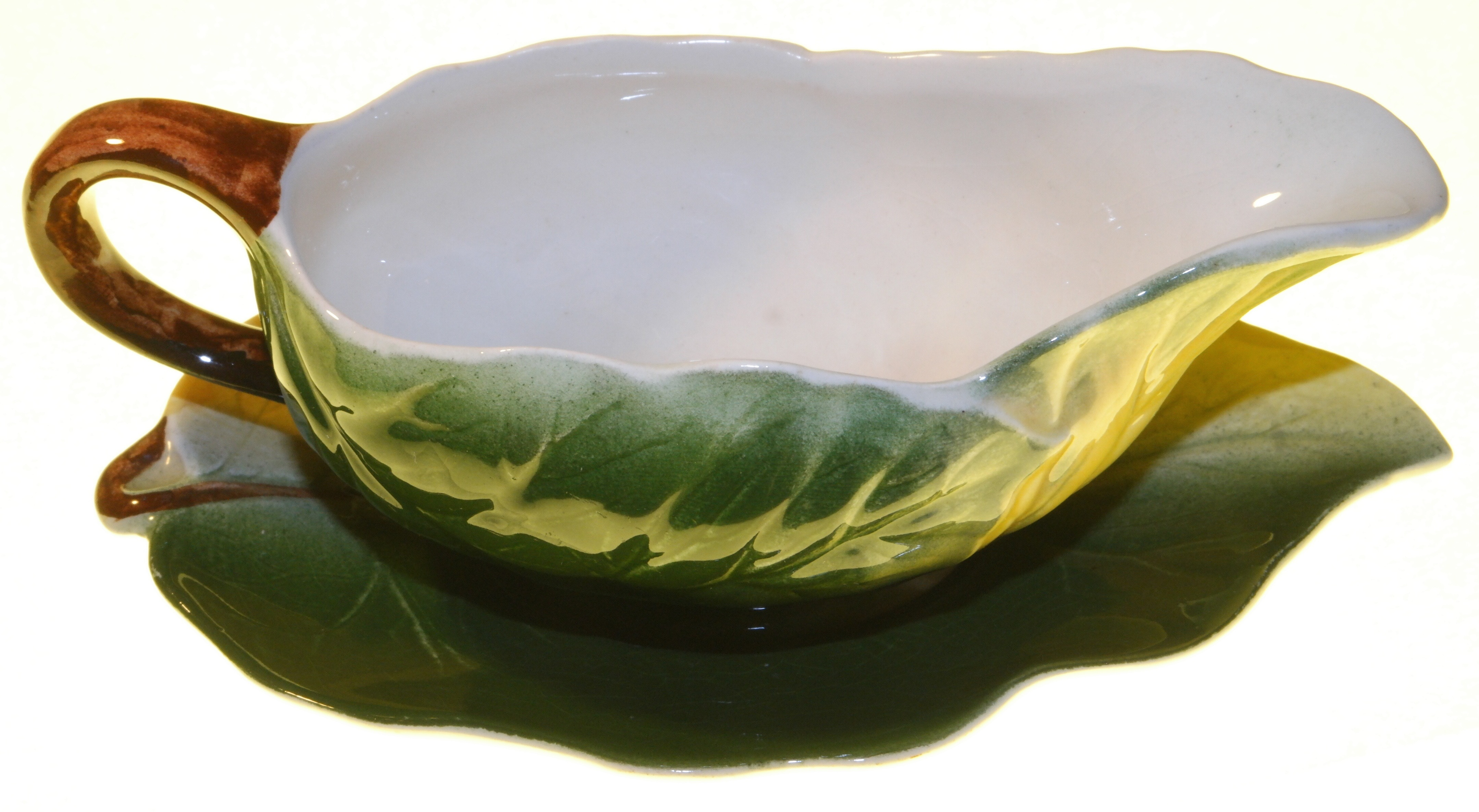 Neat product shot using uplighting table and fixed exposure time.